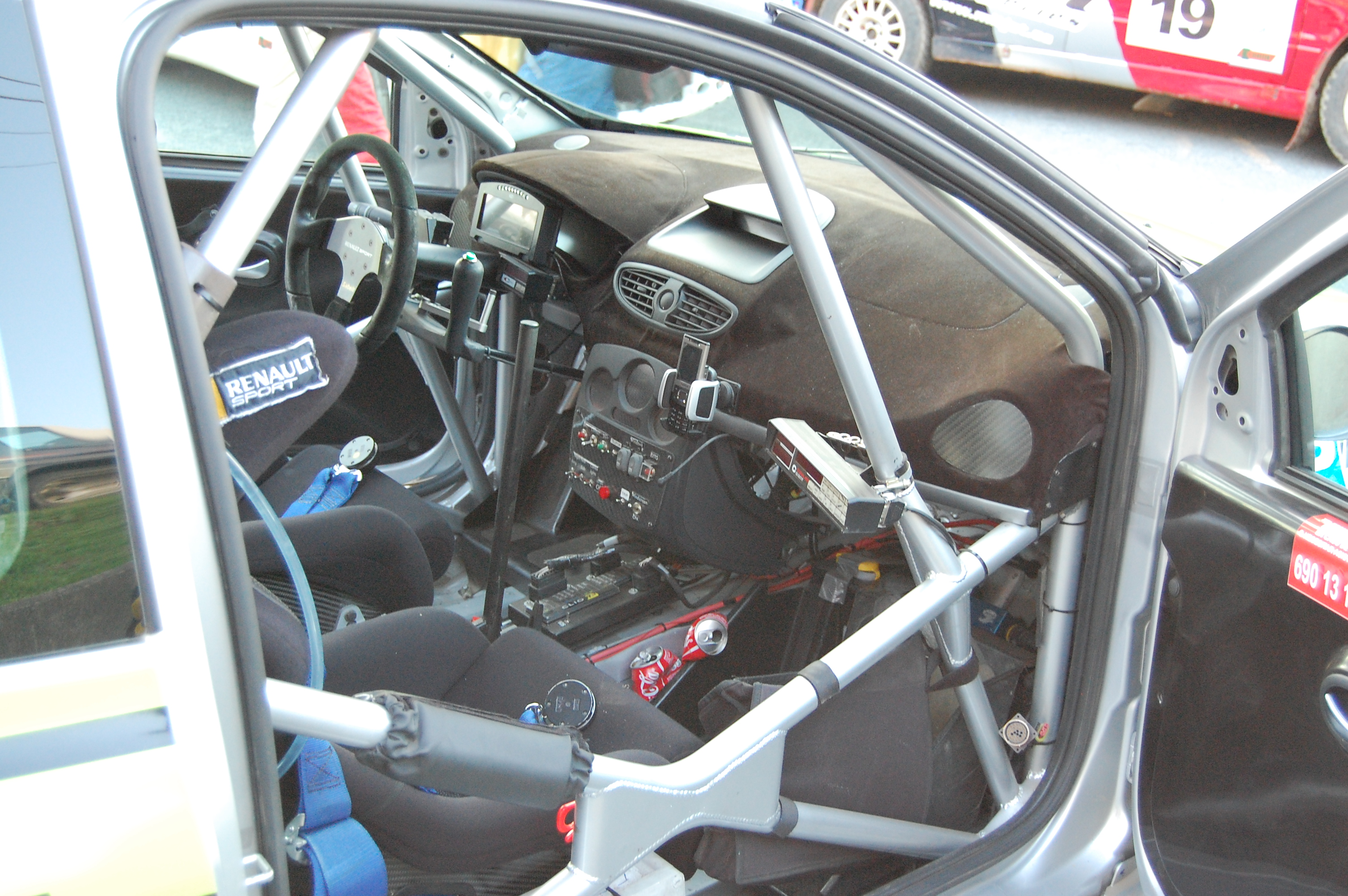 Renault Clio R3, Joan Vinyes. Spanish rally driver.